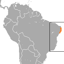 Blond Capuchin (Cebus flavius) range